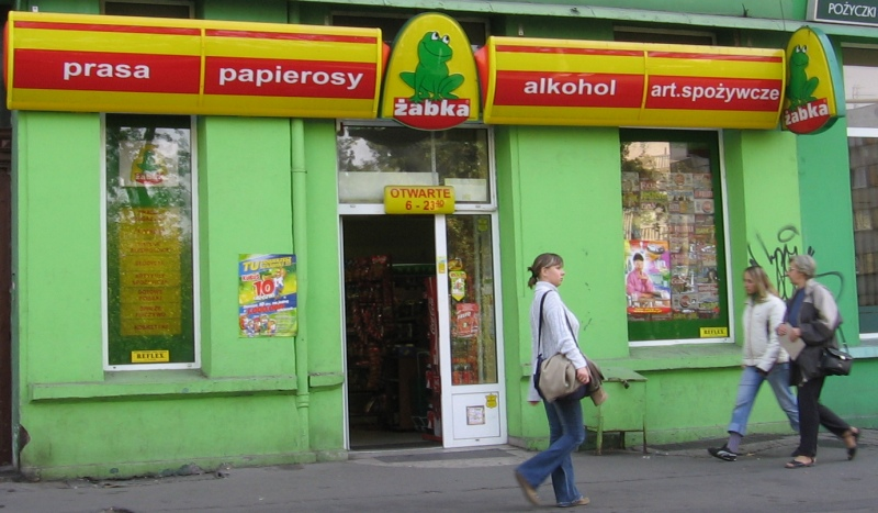 One of "Żabka" (means "small frog")-nationwide network convenience store, here in XIX-century's quarter of Wrocław